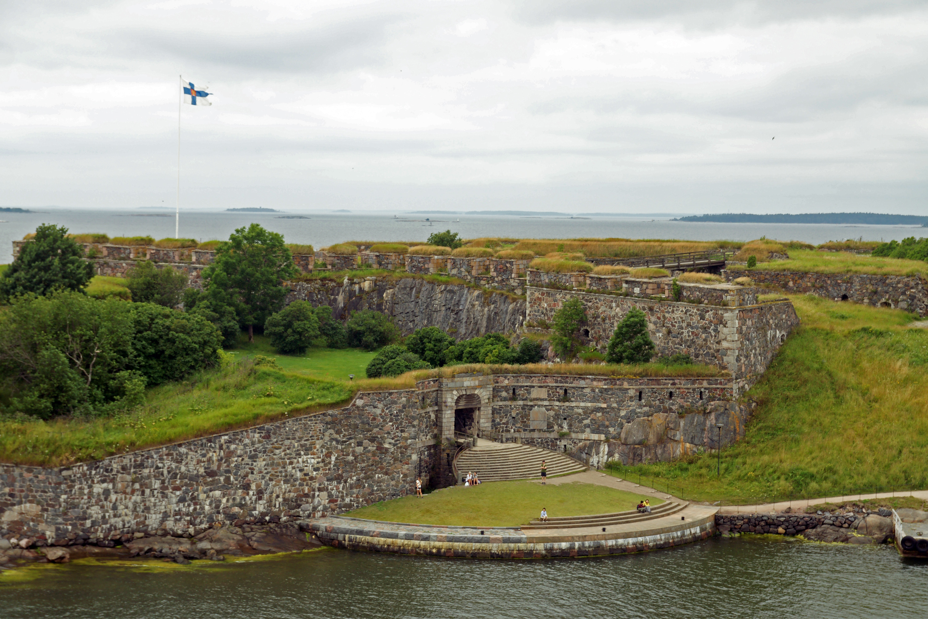 Suomenlinna